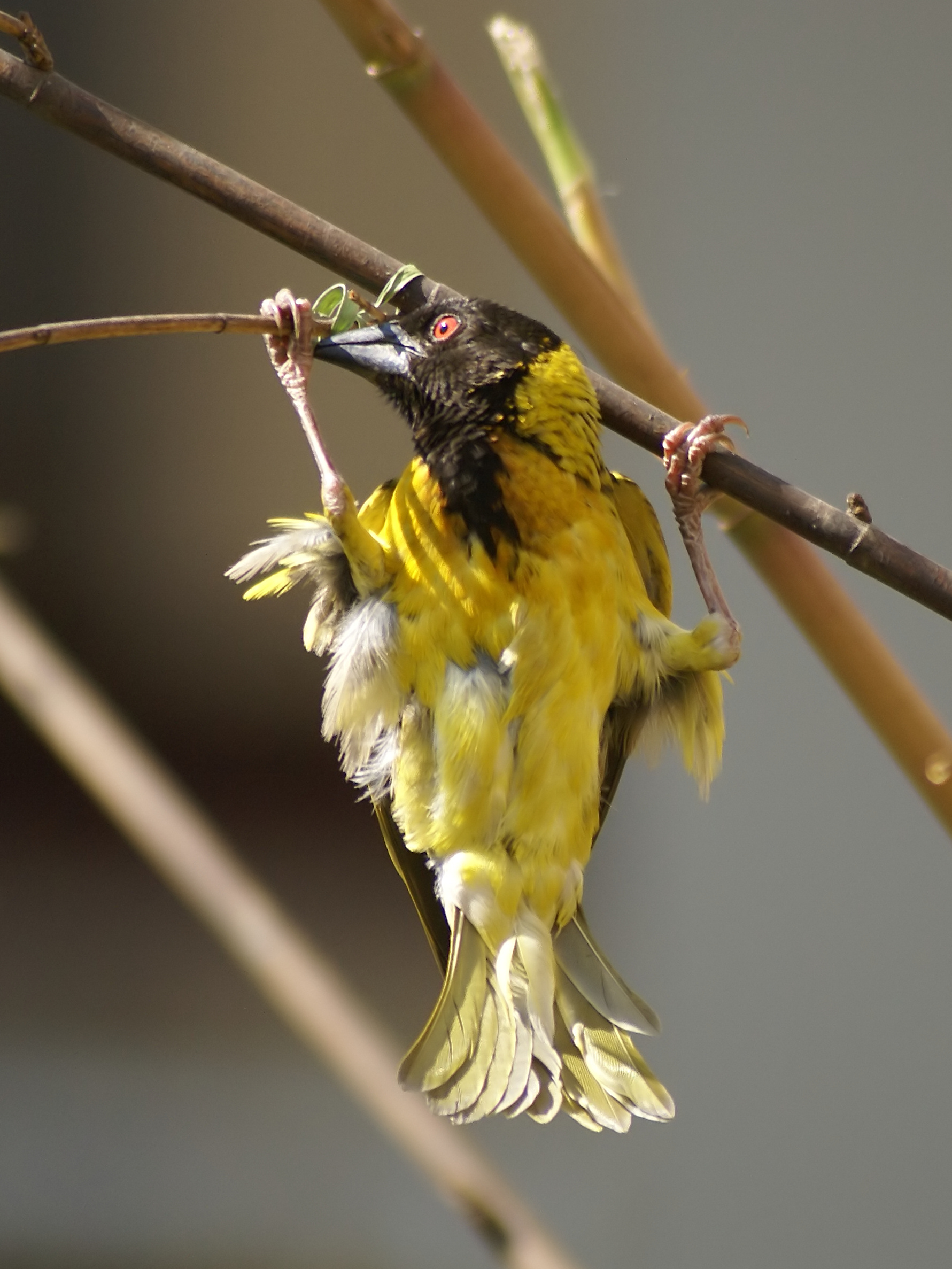 Typical pose of a Layard's Weaver removing a failed hanging nest. Lusaka, Zambia.